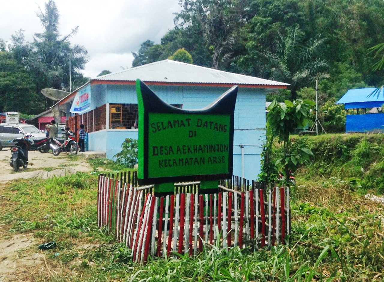 Welcome Gate to Aek Haminjon, Arse, Tapanuli Selatan